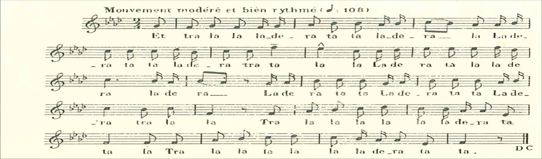 Transcription of the Bacchu-bert song, the Dratanla, by Raphaël Blanchard, 1895, published in 1914, l'art populaire dans le Briançonnais, le Ba'cubert, ed. Honoré Champion, Paris